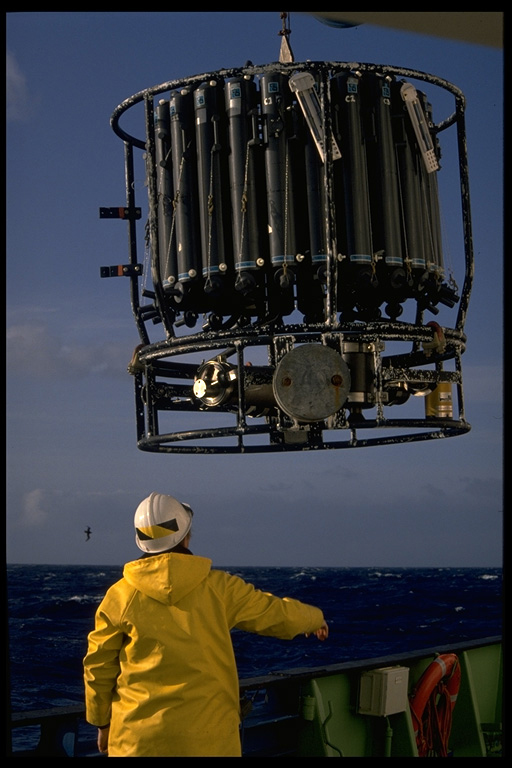 Conductivity, temperature and depth (CTD) package being deployed from RRS Discovery during SWINDEX 1 cruise in 1993, South West Indian Ocean